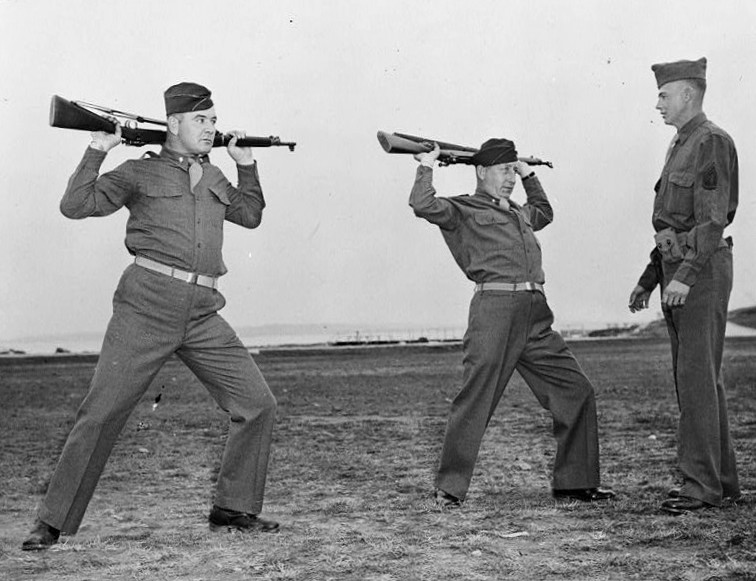 Heavyweight boxing champ James Braddock and and his manager Joseph Gould doing rifle calisthenics under instruction from Sergeant John A. Bender, who was accidentally shot by Gould during the photo op.